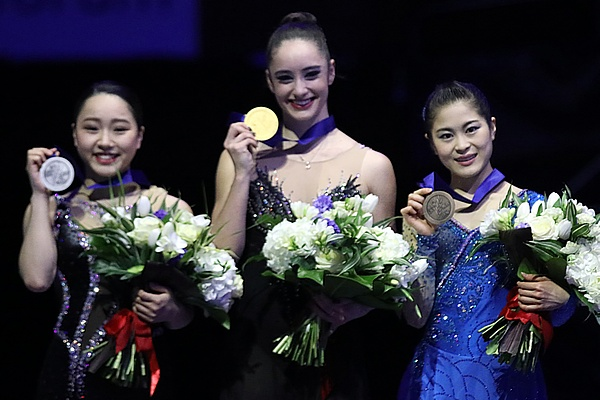 Photos – World Championships 2018 – Ladies (Medalists)